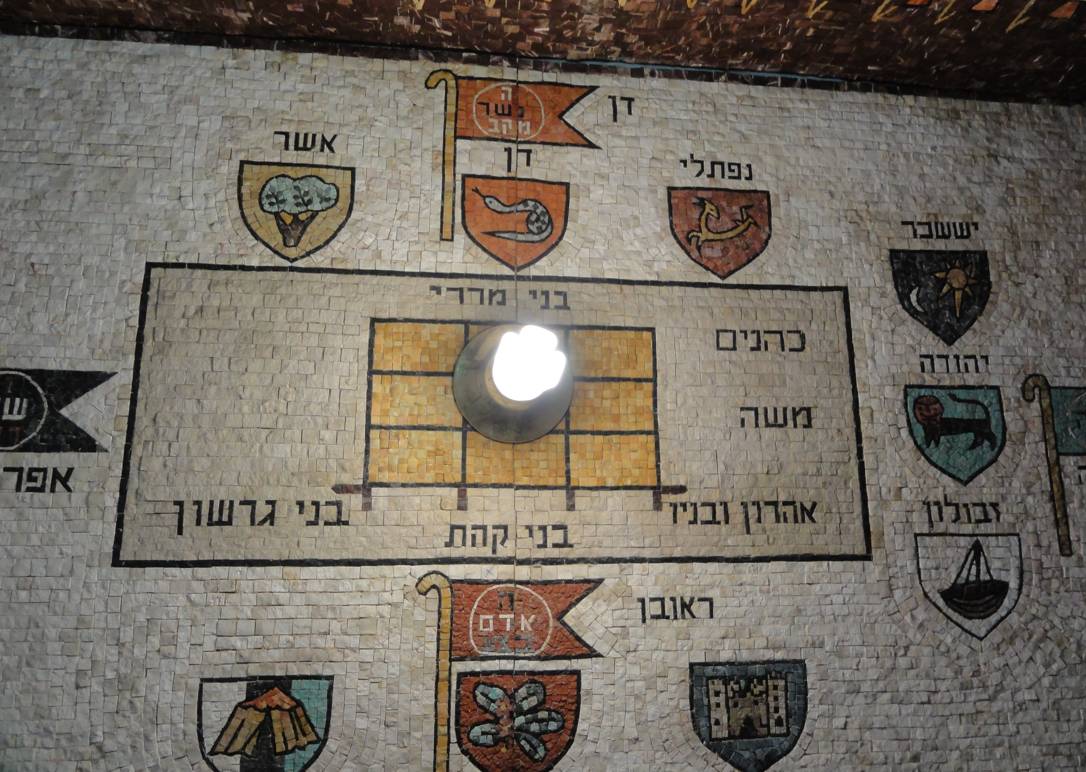 Or Torah Synagogue, Akko, Israel The Arrangement of the Tribal Camps around the Tabernacle in the middle : Levites Flag of Judah on the east: Judah, Issachar, Zebulun. Flag of Reuben on the south: Reuben, Simeon, Gad. Flag of Ephraim on the west: Ephraim, Manasseh, Benjamin. Flag of Dan on the north: Dan, Asher, Naphtali. (Parshat Bamidbar - third aliyah) (Numbers 2:1—34) Info GPS data may be inaccurate or missing. EXIF data regarding date and time may be inaccurate.